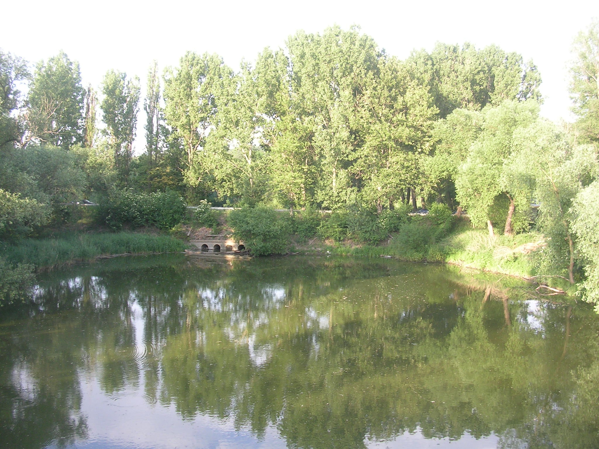 Zbraslav, Prague, the Czech Republic.